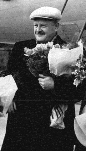 Nazim Hikmet, Turkish poet, playwright, novelist, screenwriter, director and memoirist